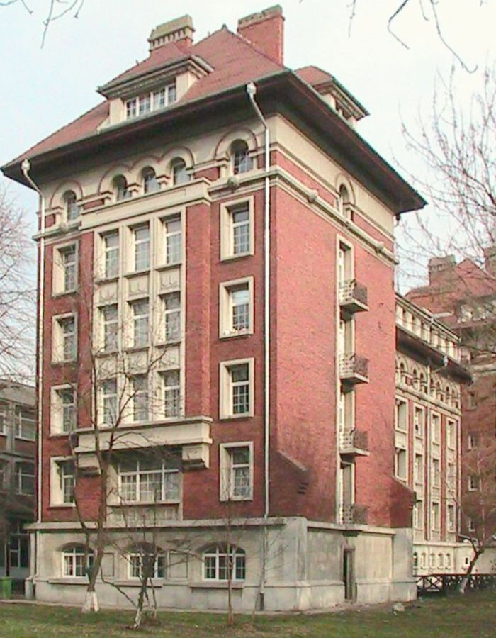 The 1MV dormitory in the courtyard of the Faculty of Mechanical Engineering from Timisoara.